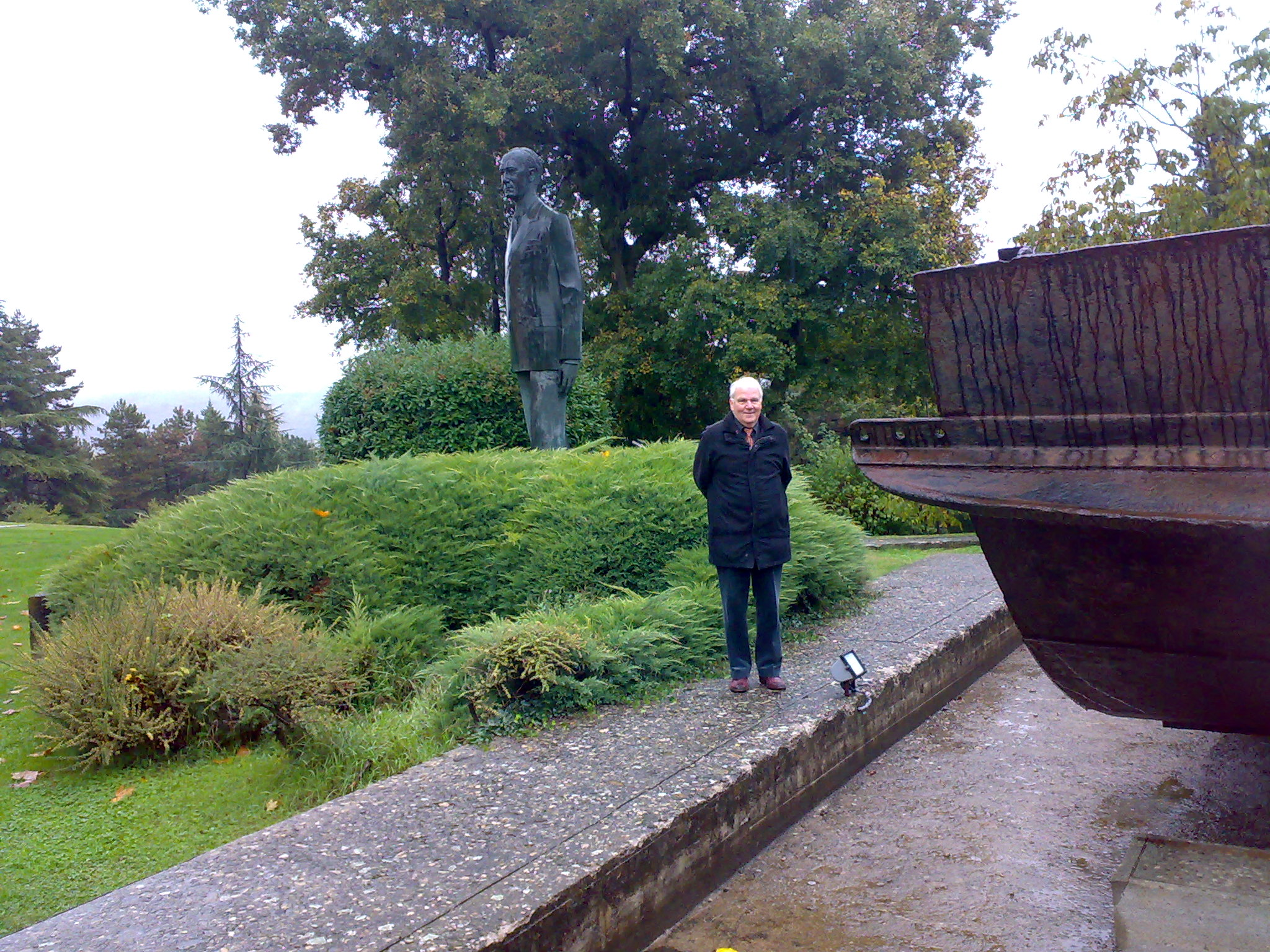 Bronze statue of G. Marconi and segement of yacht 'Elettra'